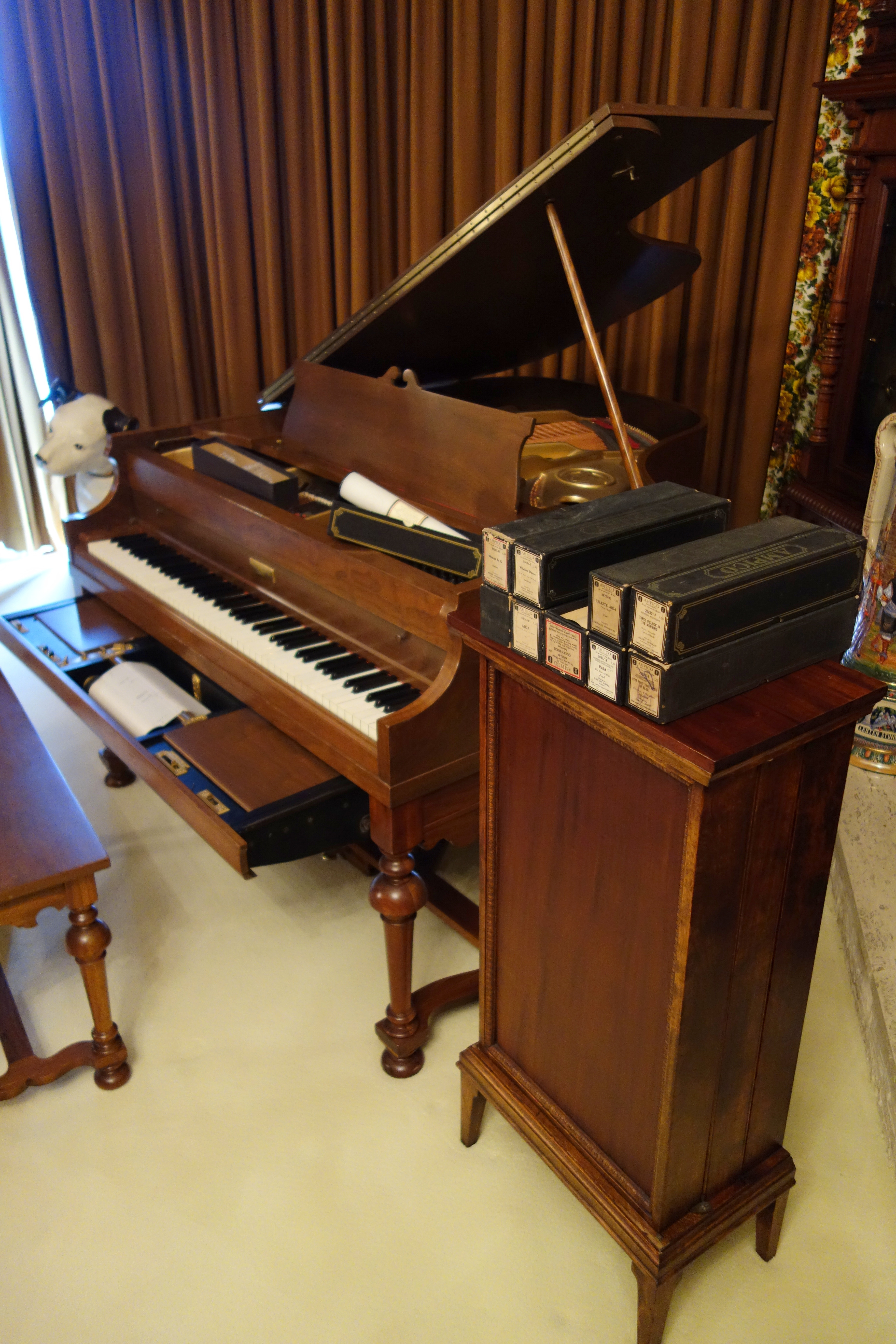 Exhibit in the Bayernhof Museum, 225 St. Charles Place, O'Hara Township, Pittsburgh, Pennsylvania, USA.